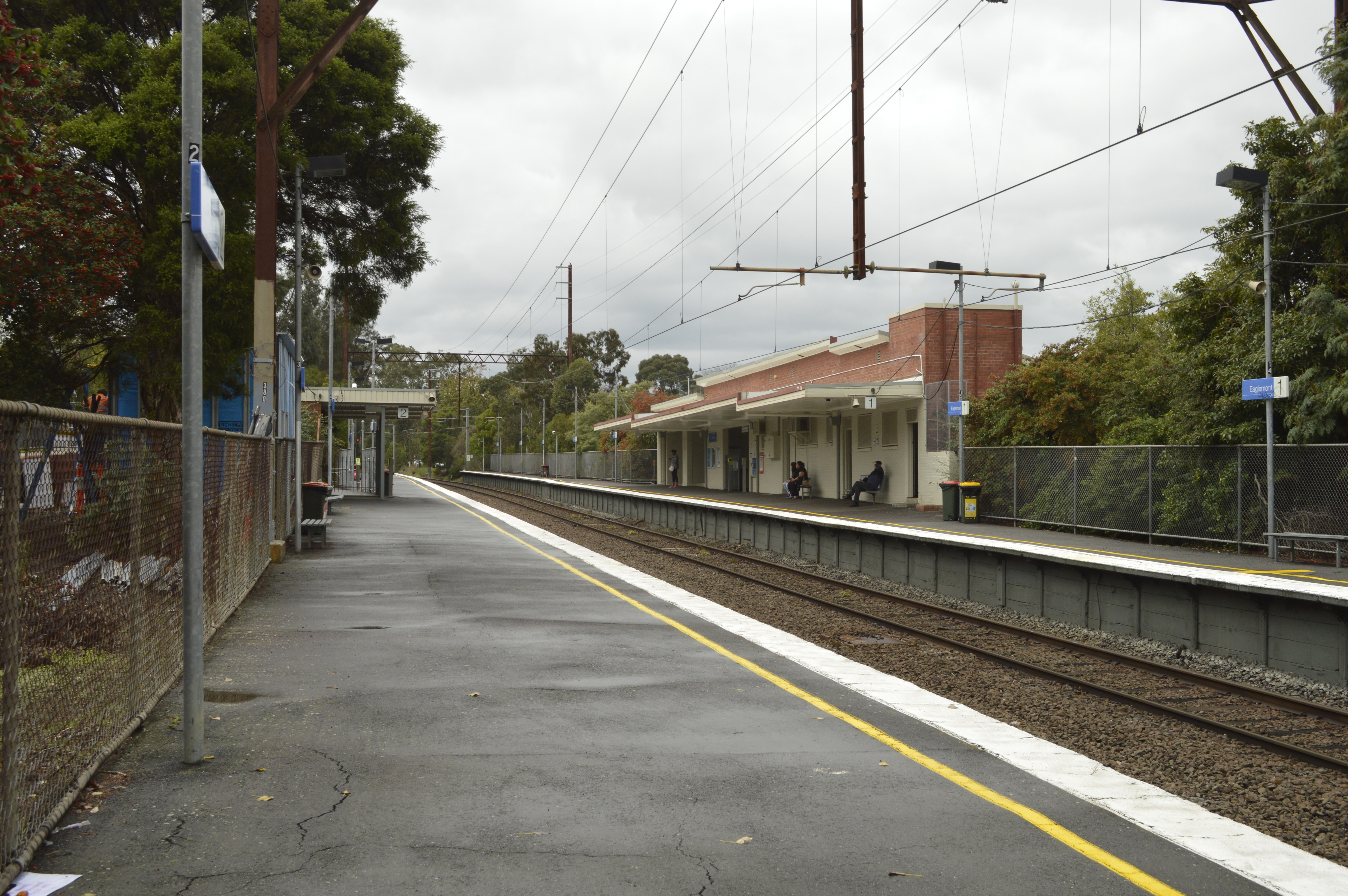 View from platform 2 looking towards Hurstbridge.